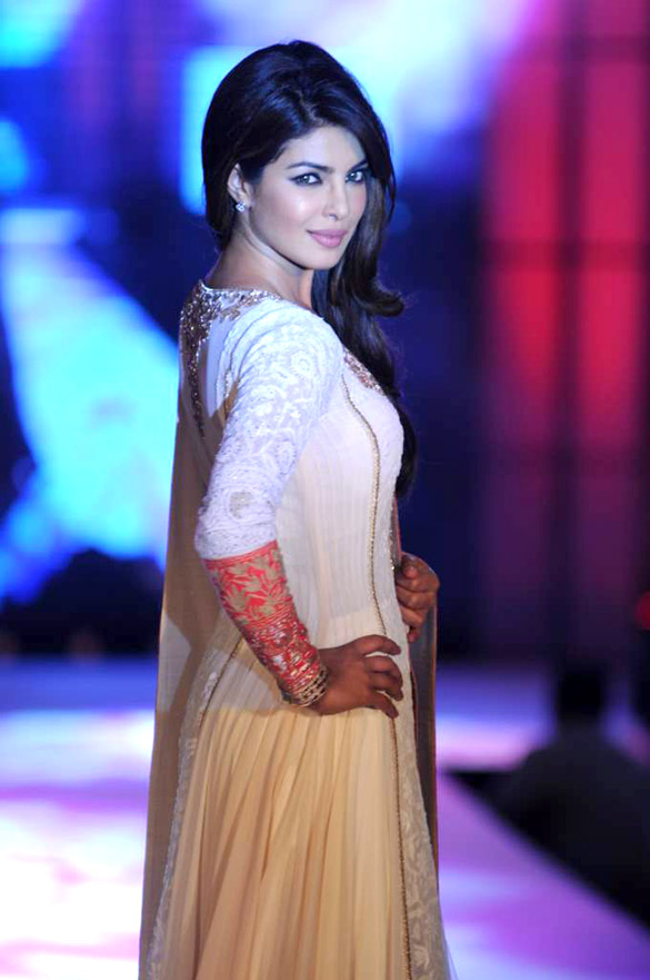 Priyanka Chopra walks for Manish Malhotra & Shaina NC's show for CPAA